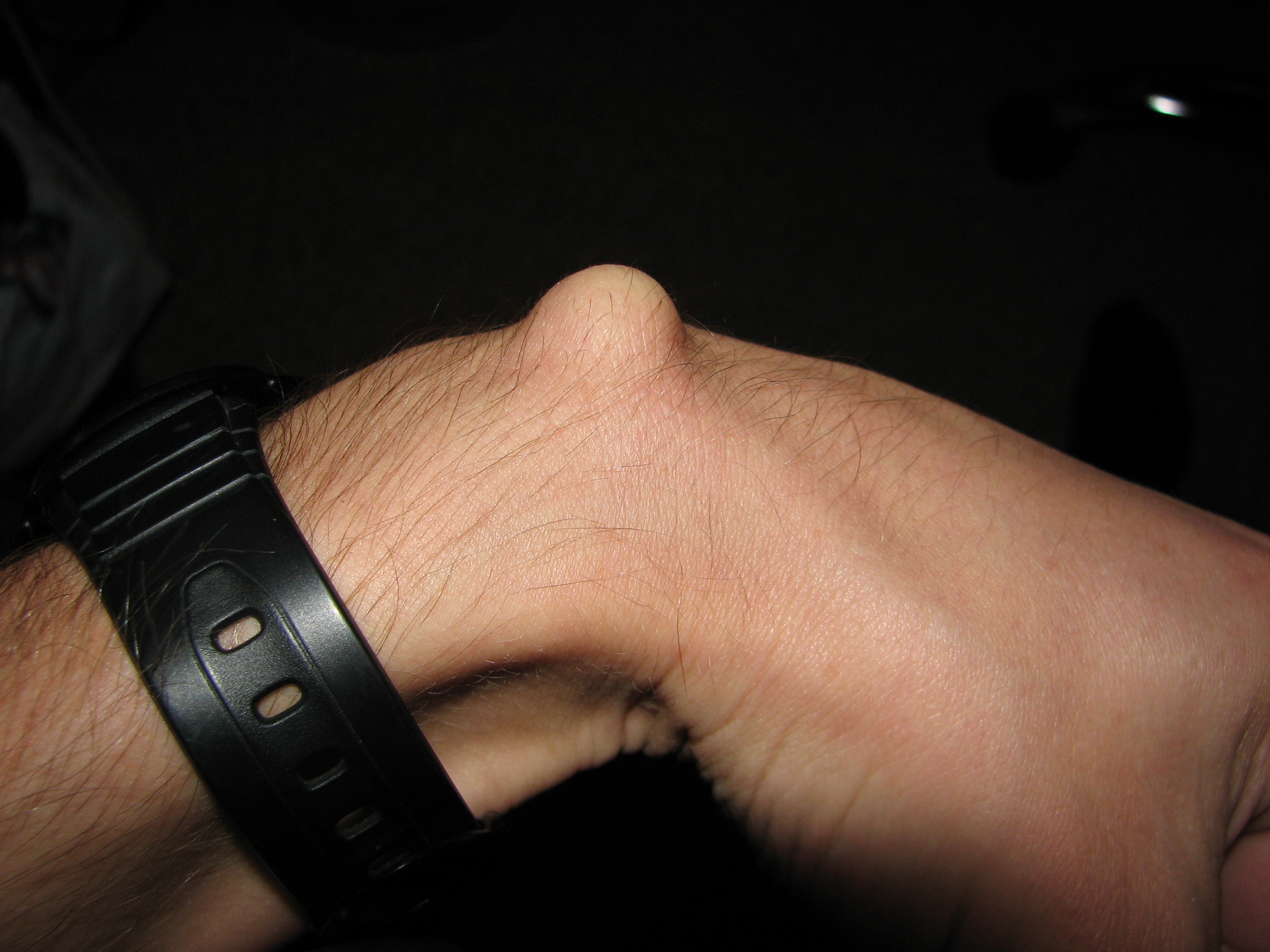 A ganglion cyst